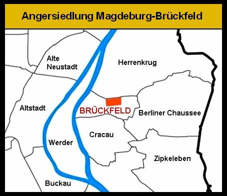 Allocation of Angersiedlung Magdeburg, Germany